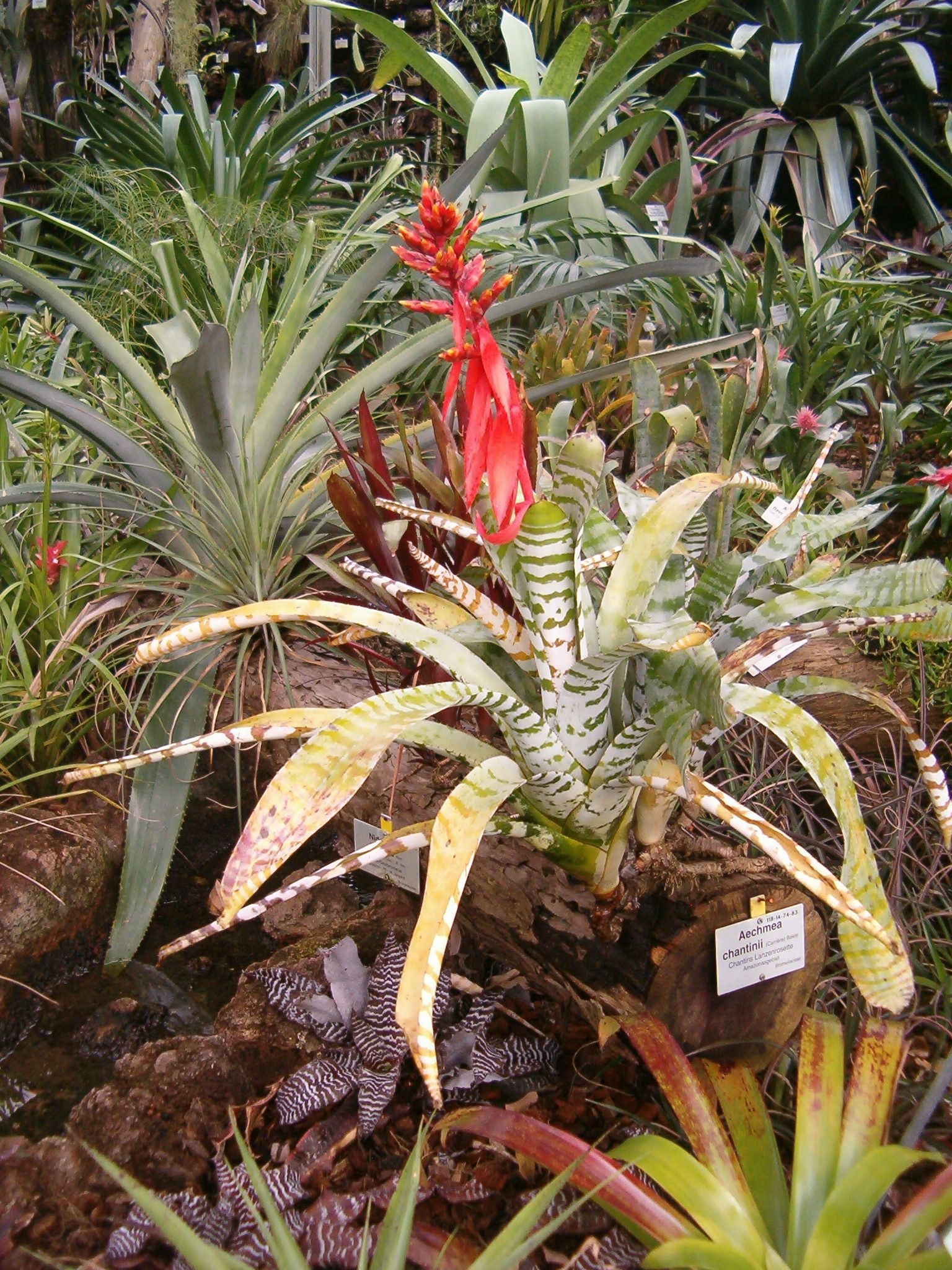 Species Aechmea chantinii Aechmea chantinii Habitus and Inflorescences in the Botanical Gardens Berlin Dahlem